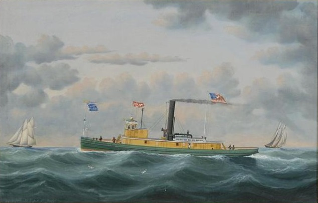 Honeysuckle by William G. Yorke; oil-on-canvas painting. Built at Buffalo, New York, in 1862 under the name William G. Fargo, the vessel served as USS Honeysuckle during the American Civil War as a gunboat, dispatch vessel and tugboat before decommissioning in 1865. Subsequently she became the merchant Honeysuckle and was active until 1900.